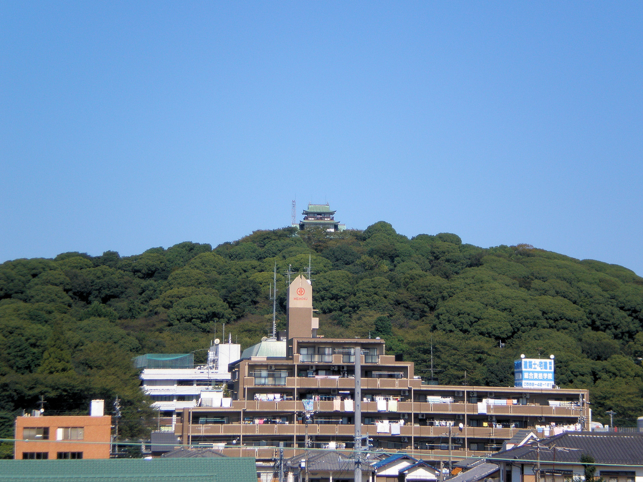 Komaki-shi Rekishikan, Komaki Castle